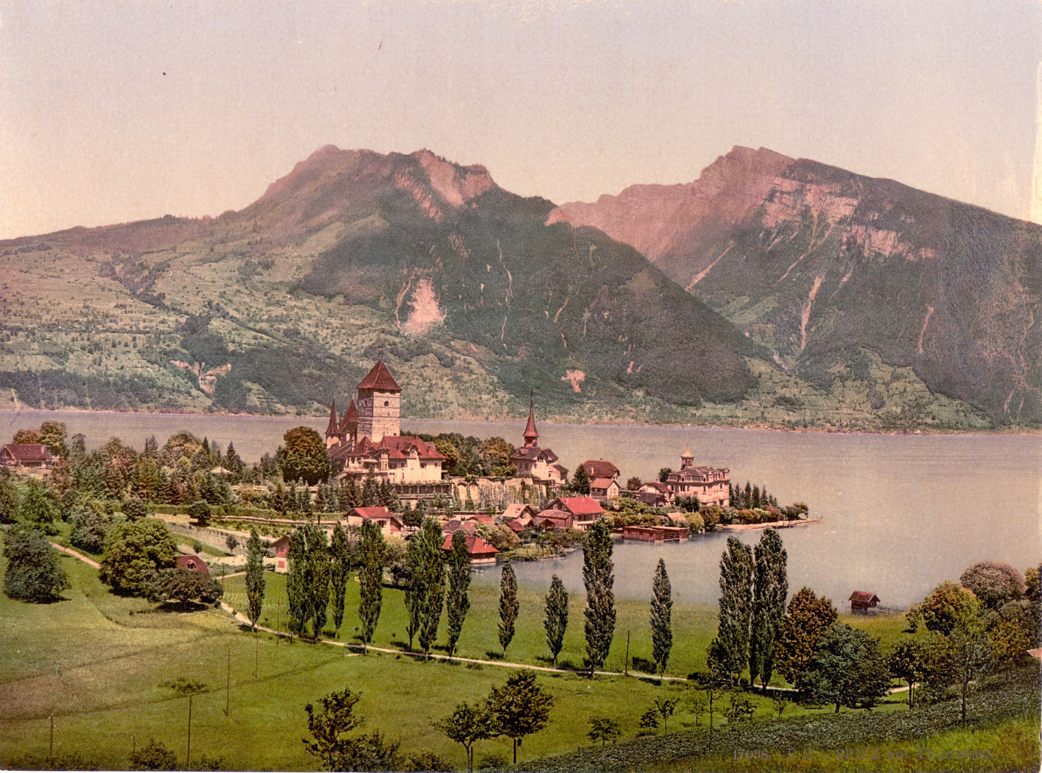 Spiez at Lake Thun (Thunersee) about 1900, in the background is the niederhorn (Mountain)